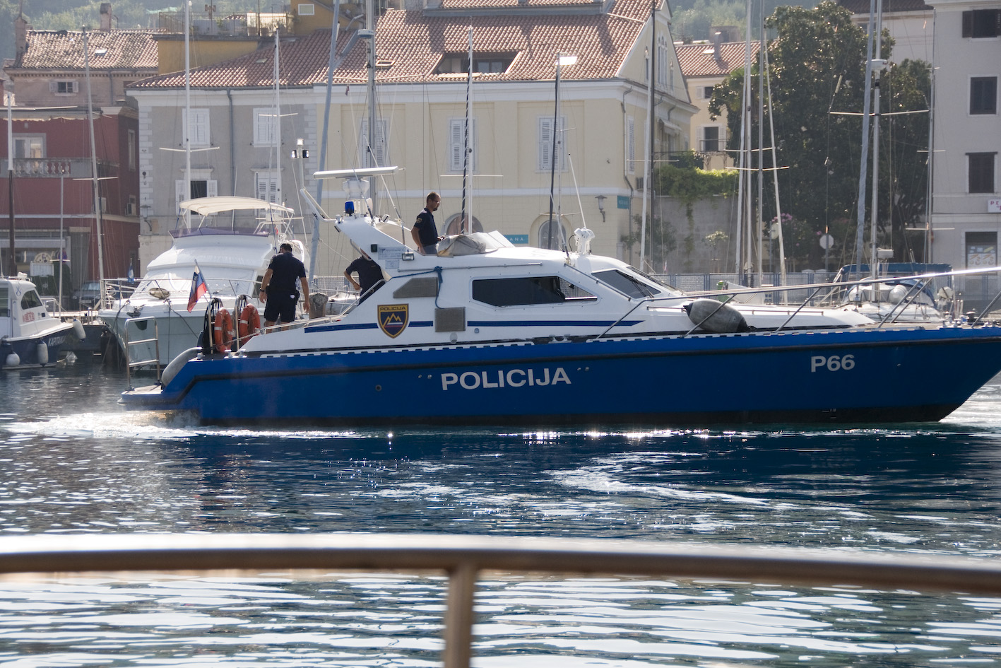 Slovenian Police patrol boat P-66